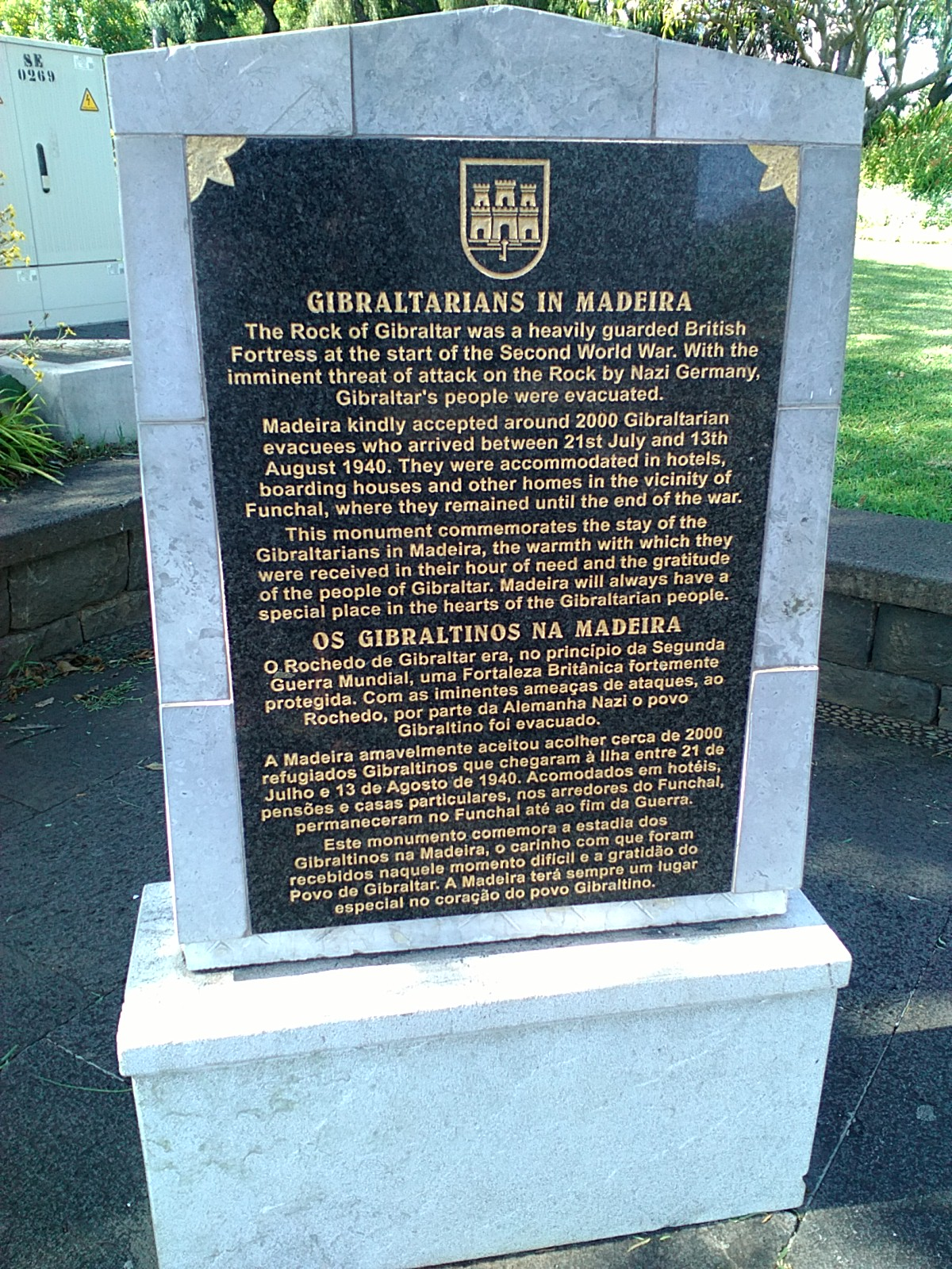 memorial Stone for the evacuation of the Gibraltarians during World War II, Funchal, Madeira